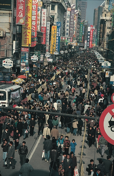 Nanjing Road is the main street in Shanghai, China's largest city with a population of 14 million people. It is scenes like this that cause many Chinese people to support their government's anti-natalist policy.